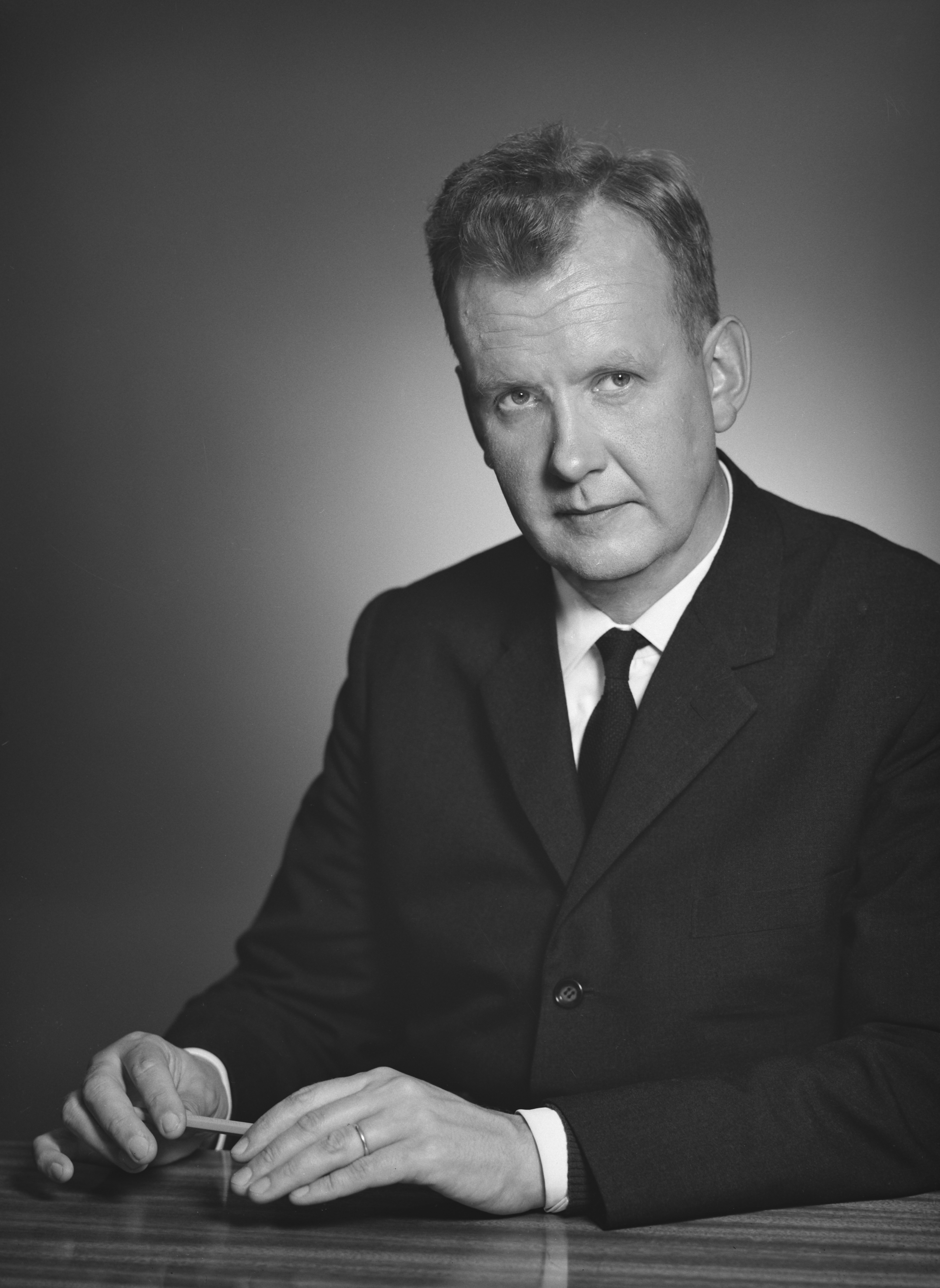 Photograph of the Finnish architect Jaakko Kontio (1924–2016).